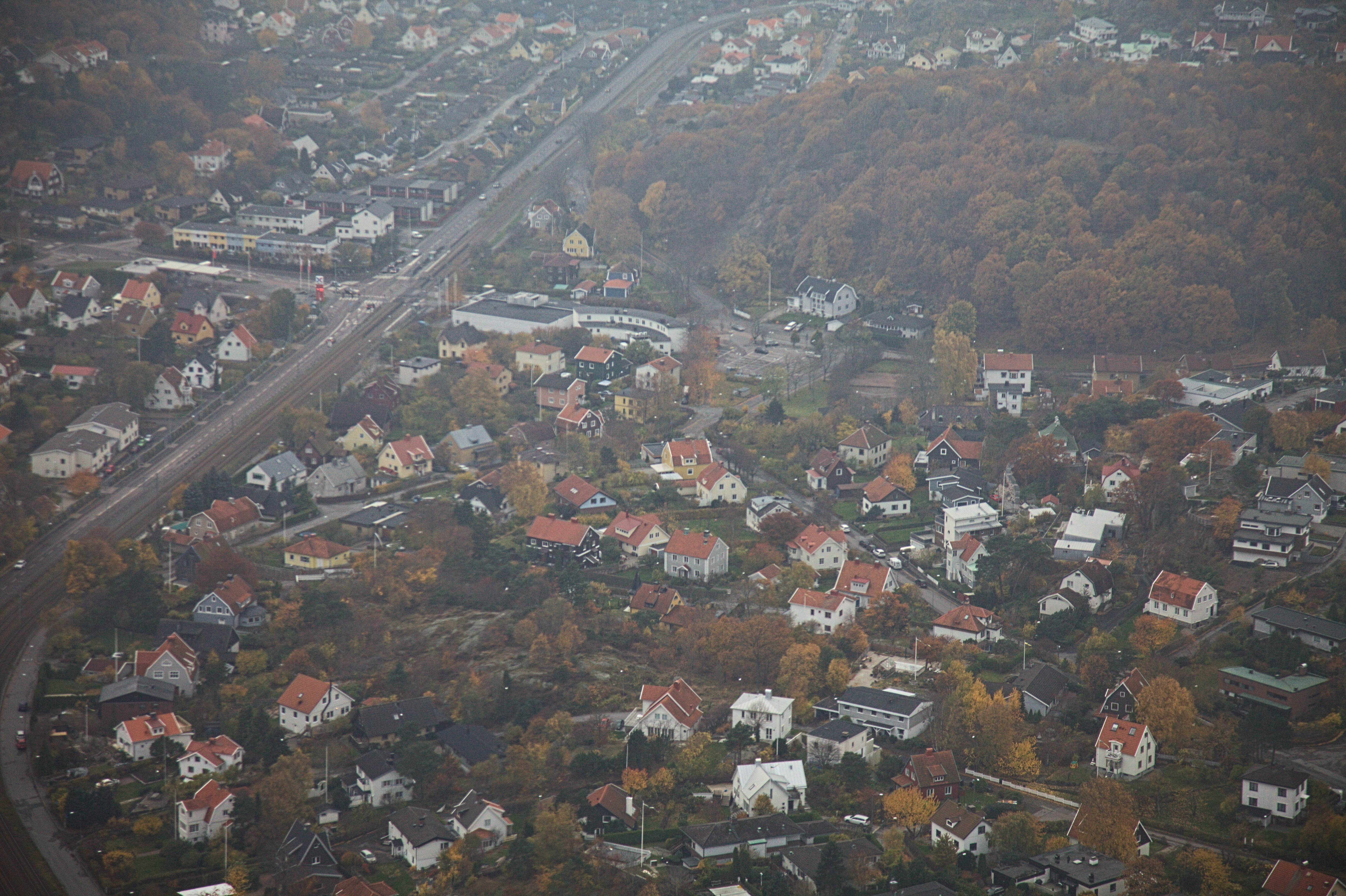 Photo taken on a helicopter over Gothenburg